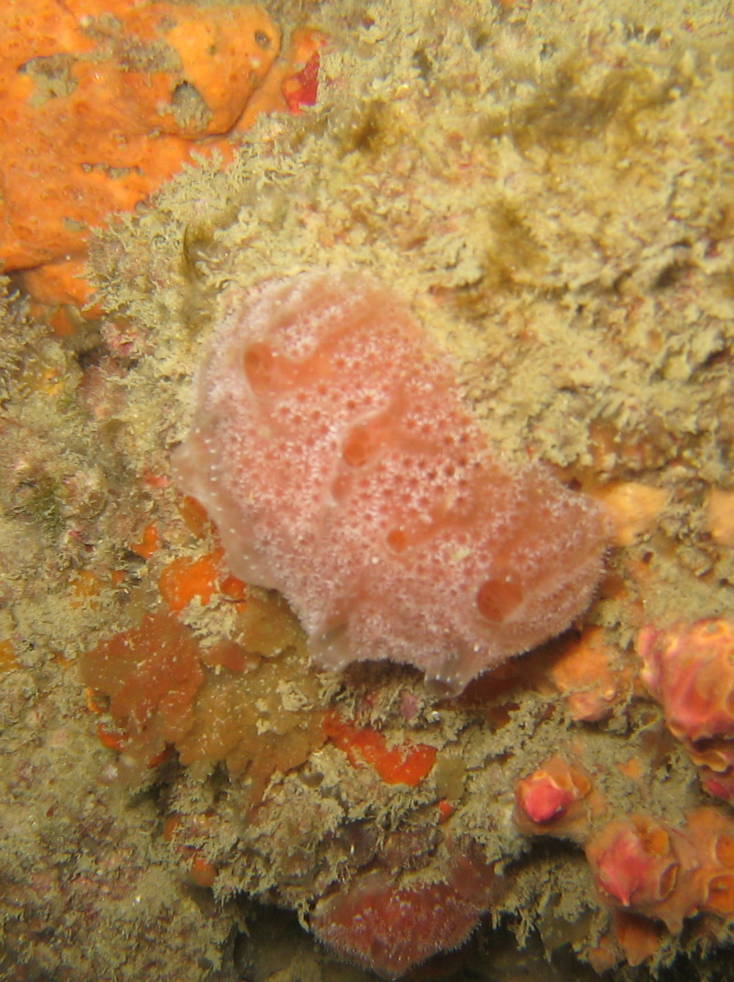 Sea-strawberry (Aplidium elegans) à Saint-Quay-Portrieux